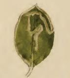 Stainton’s Natural History of the Tineina (1855–1873): Stigmella lonicerarum mined honesuckle leaf